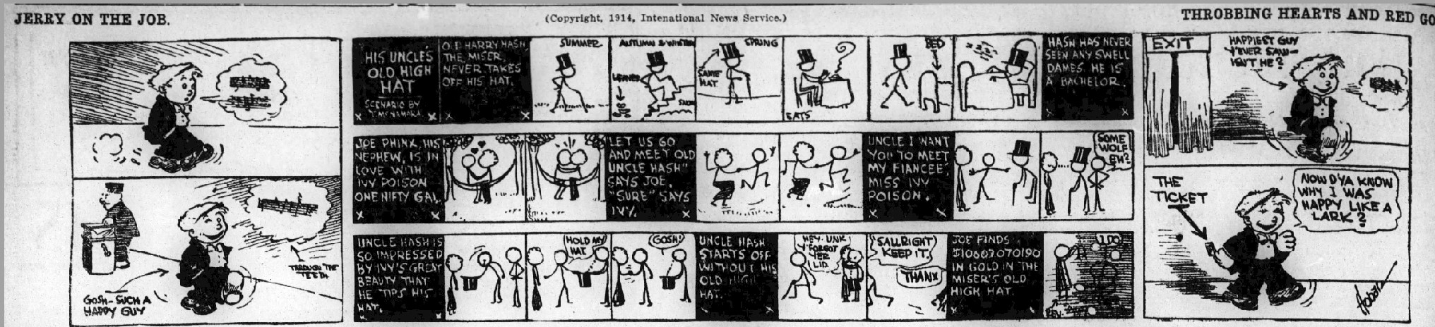 Copy of the comic strip Jerry on the Job from 1914.